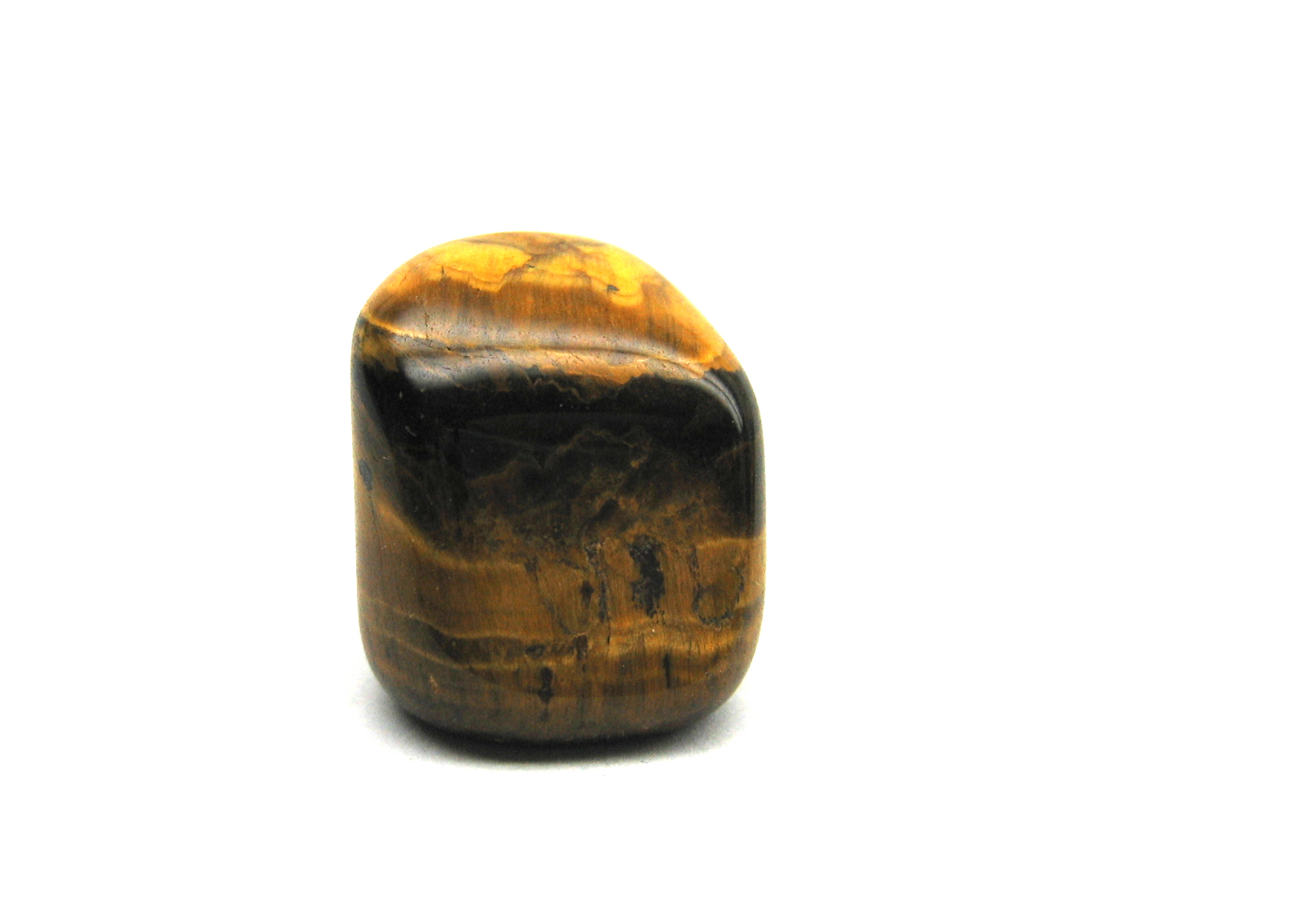 Macro of polished Tigers-eye.